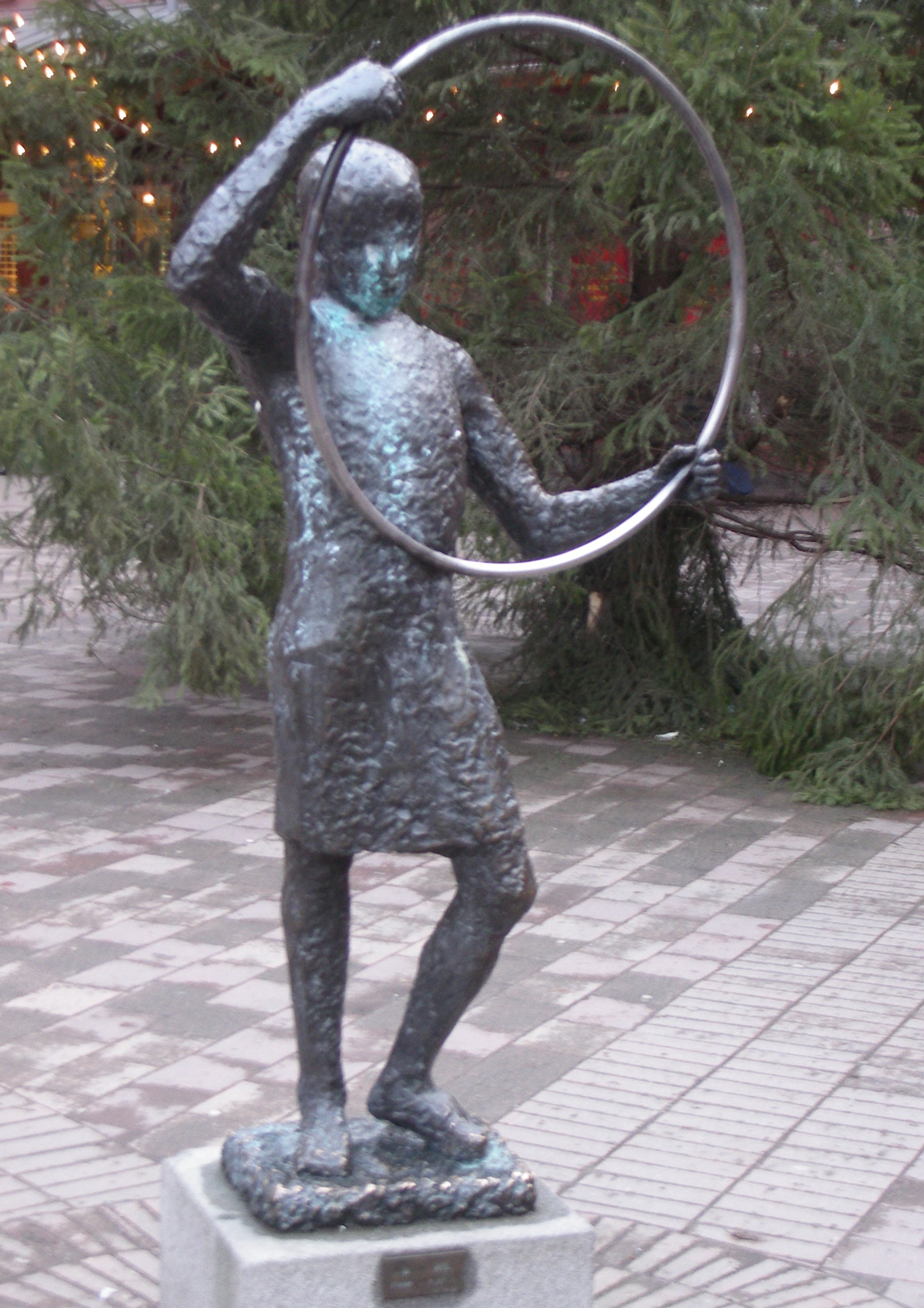 Asmund Arles Flicka med ring, brons 1989, Forelltorget i Huddinge Centrum. Asmund Arle´s Girl with hoop, bronze 1989, Forelltorget square, Huddinge Centre, Stockholm.